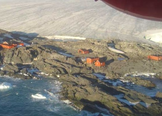 taken by author during a flight in the BAS Dash 7 over Adelaide Island in March 2004